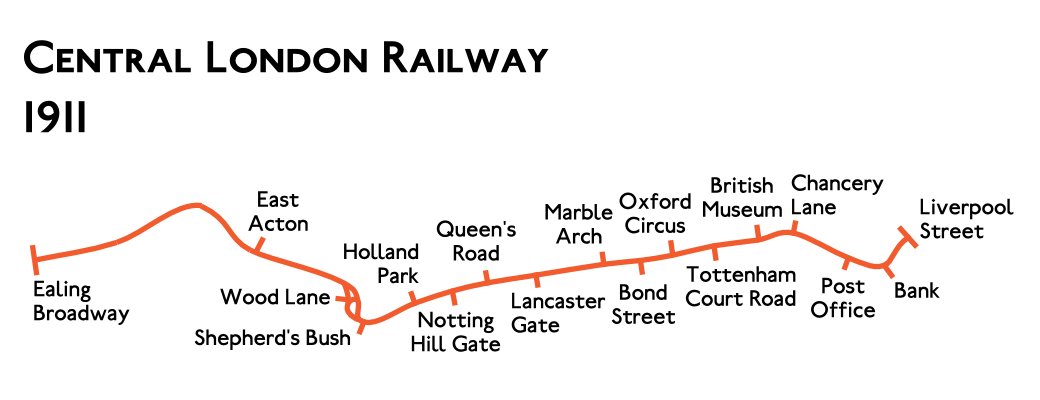 Geographic Map of the Central London Railway as planned in 1911.